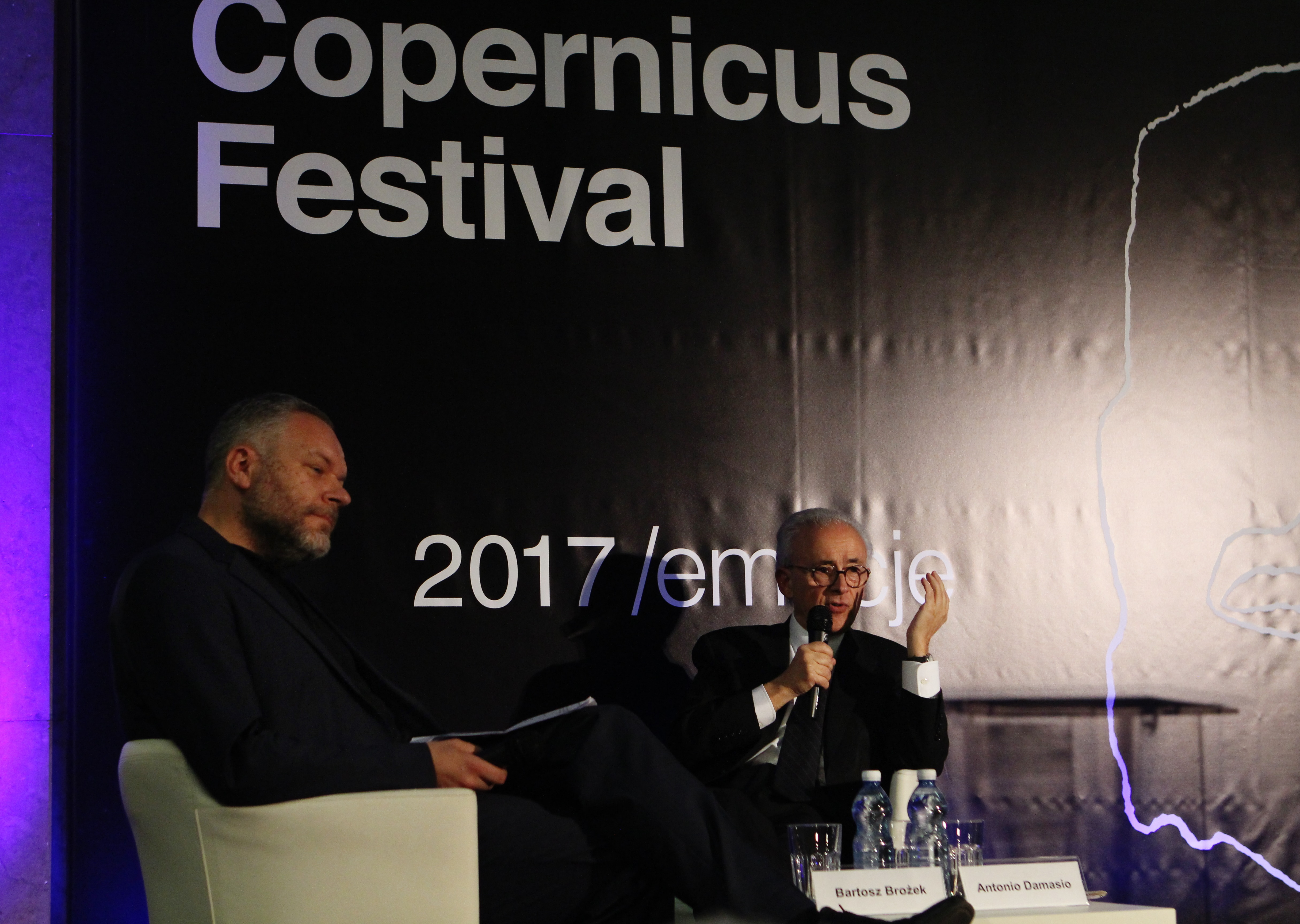 Philosopher of law Bartosz Brożek and neuroscientist Antonio Damasio during the discussion at the fourth edition of Copernicus Festival (edition devoted to emotions), hall of the Main Building of the National Museum in Kraków.